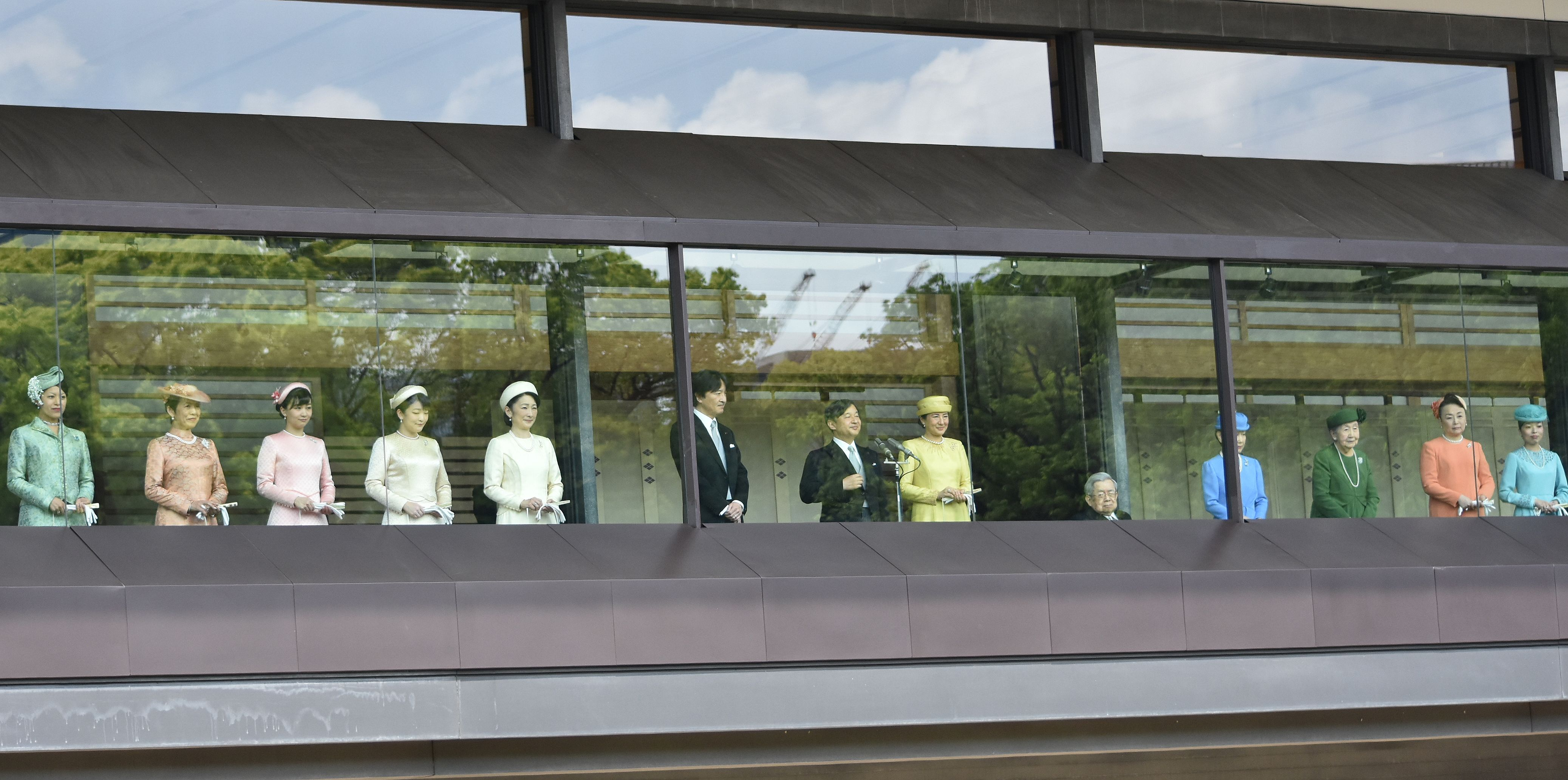 Members of the Imperial Family show themselves to the general public that celebrates the new emperor's enthronement. However, Emperor Emeritus Akihito and Empress Emeritus Michiko are not present. On May 4th, 2019, a picture of the Chōwaden Reception Hall was taken from the Imperial Palace East Gardens. Nikon D3400